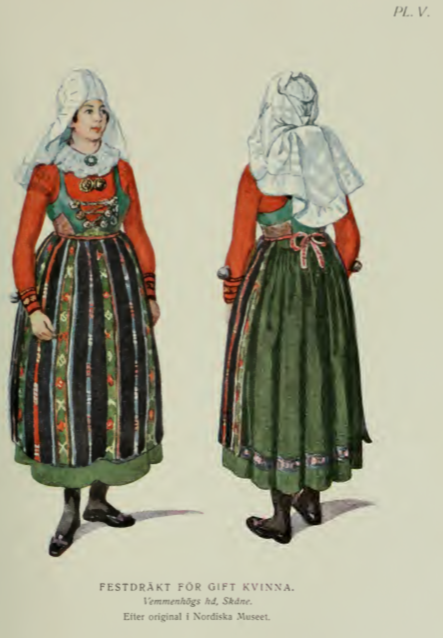 Kvinna i folkdräkt från Vemmenhög härad, Skåne.